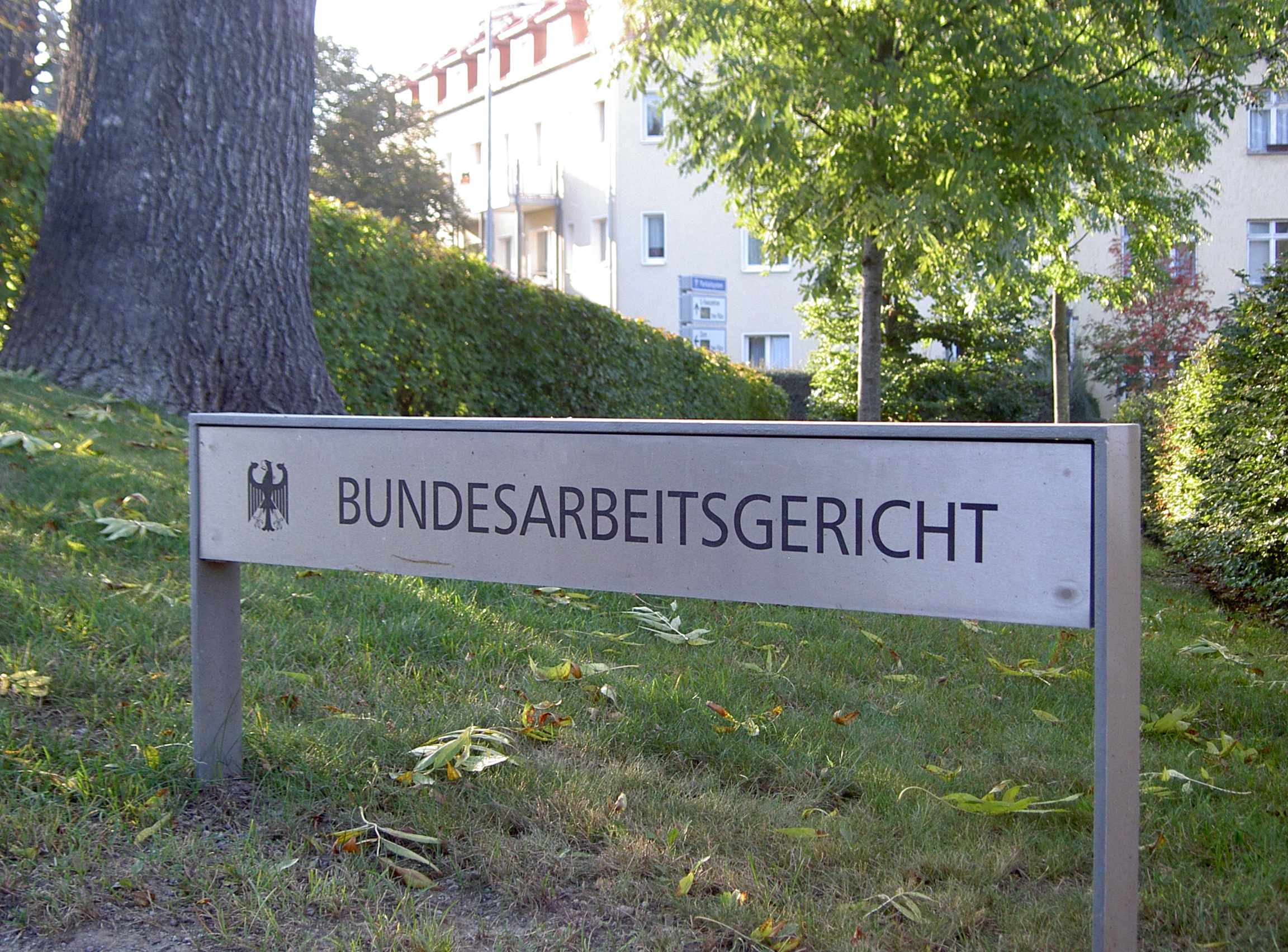 Sign of the "Bundesarbeitsgericht" in Erfurt